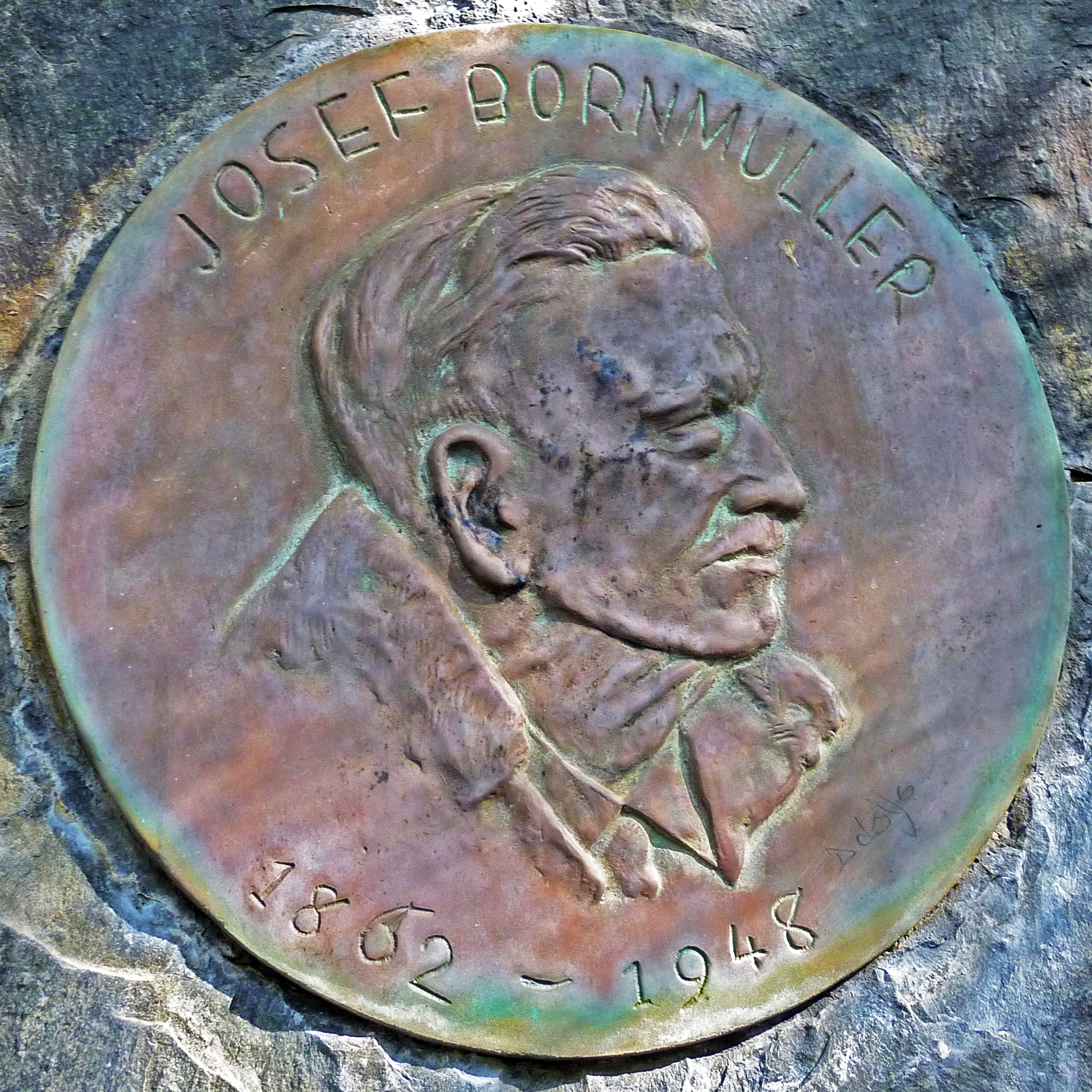 Plaque of Josef Bornmuller at the Jardín Botánico Canario Viera y Clavijo.